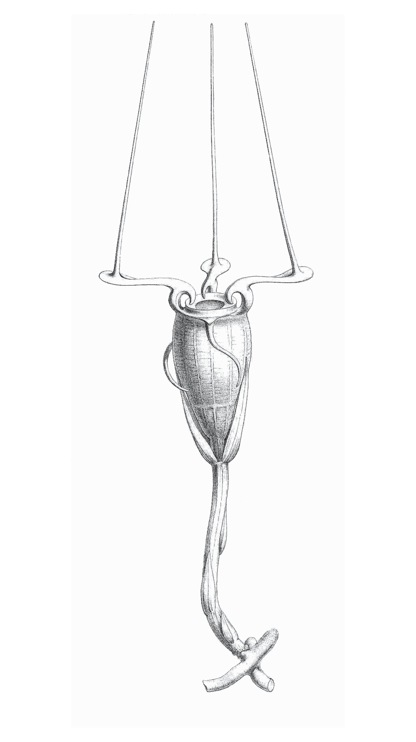 Thismia neptunis